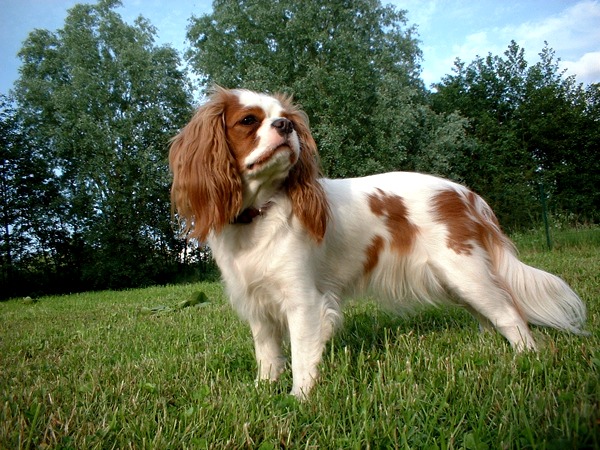 Two years old Cavalier King Charles Spaniel.